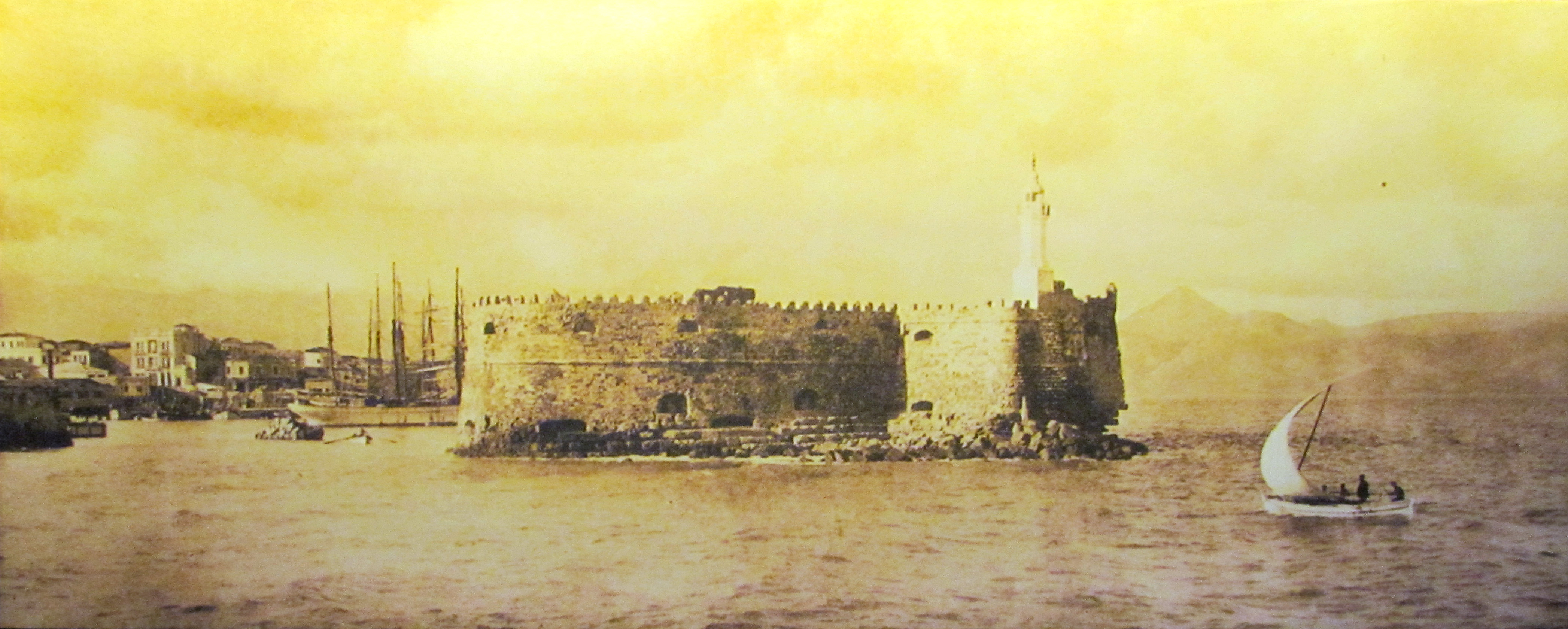 Fortress of the Sea, Heraklion, Crete 1919